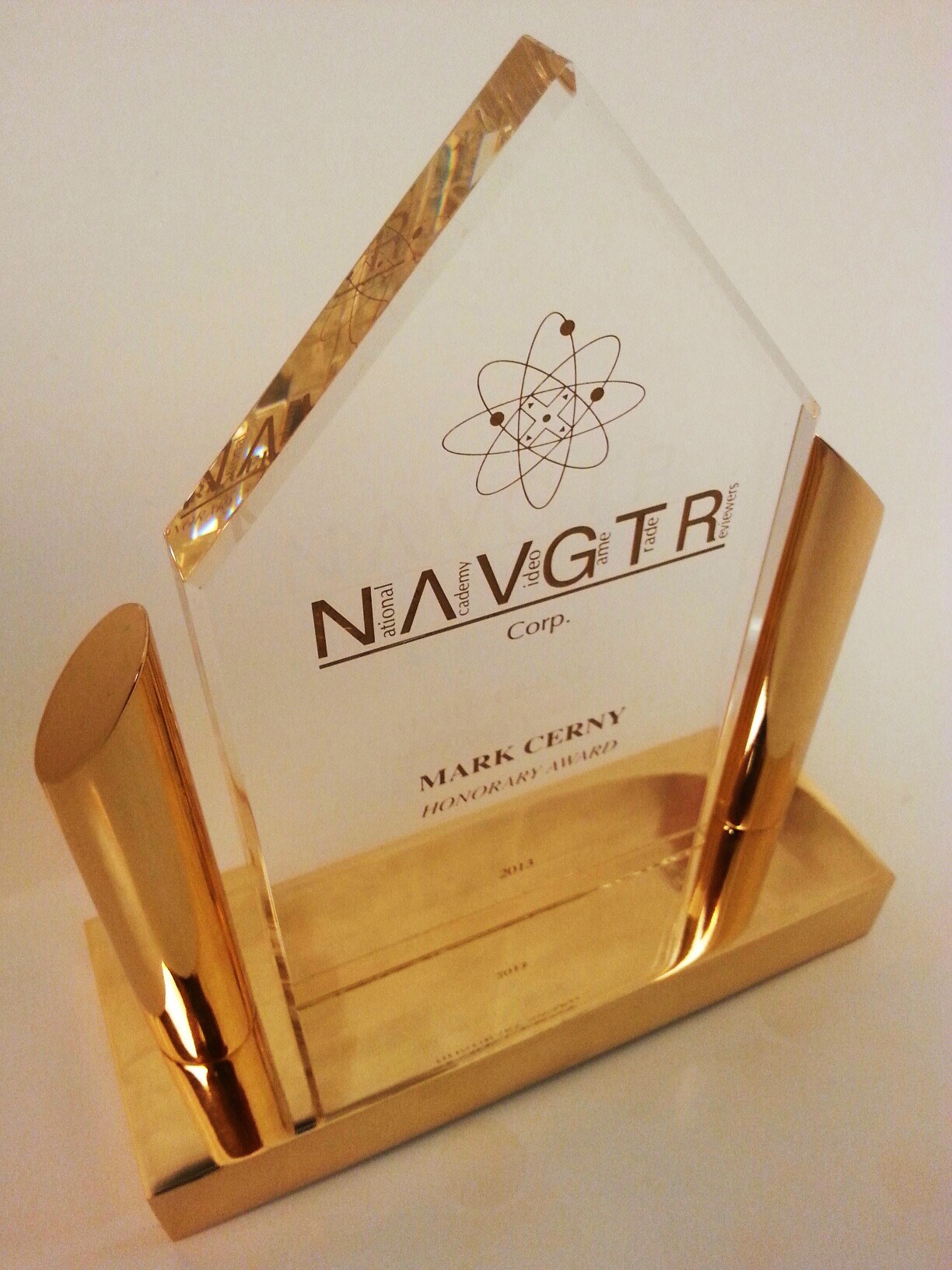 Award established in 2001 and given annually by the National Academy of Video Game Trade Reviewers